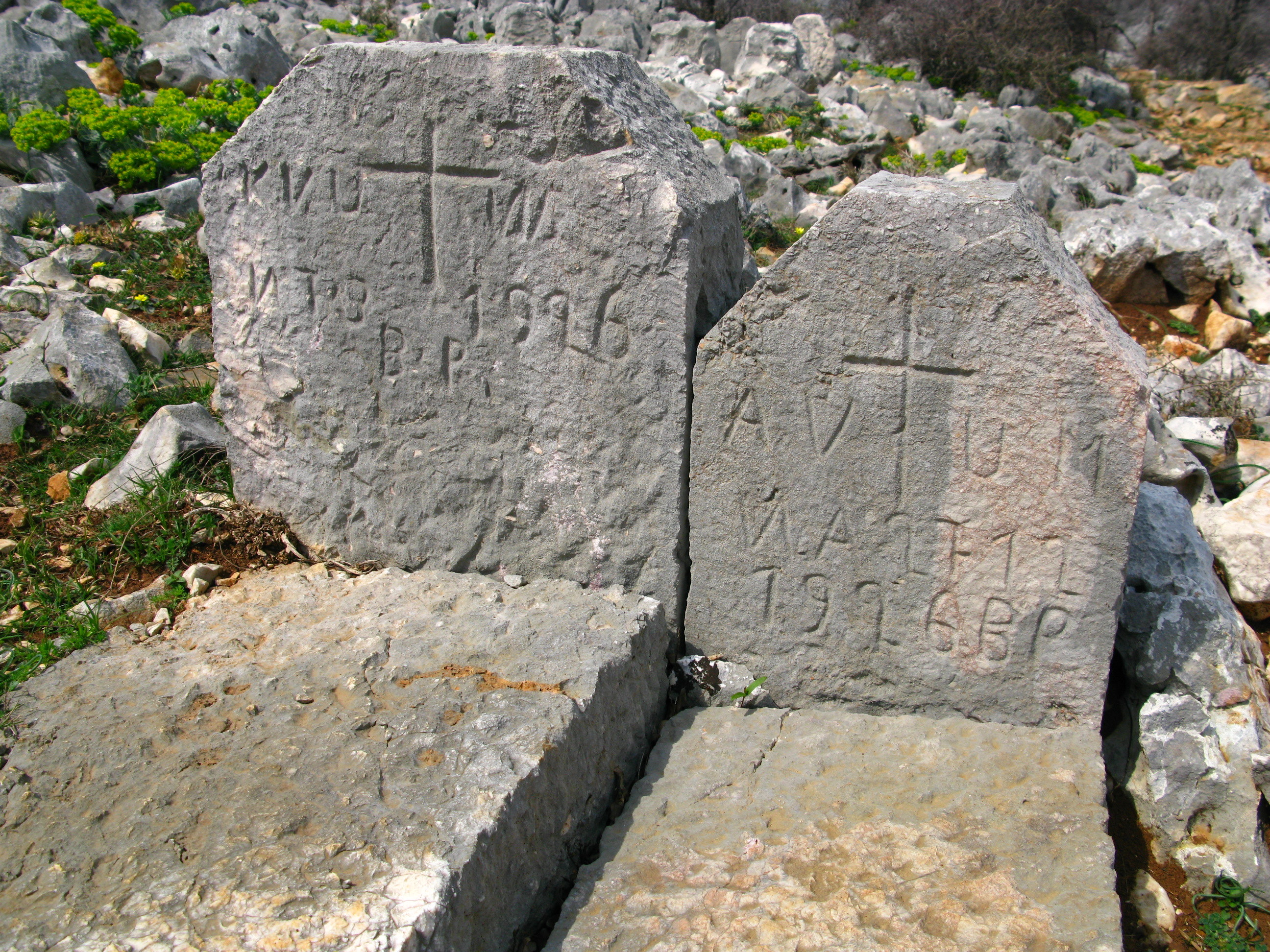 Vukićer Mirila near Ljubotič above Tribanj Kruščica at the Adriatic Highway near Starigrad in the Velebit mountain range in Croatia / Balkans / southeastern Europe.